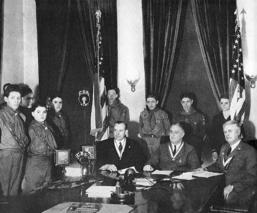 Seated, left to right: Walter W. Head – President of the Boy Scouts of America, U.S. President Franklin D. Roosevelt, and Chief Scout Executive James E. West, in a radio address to the nation from the White House, on February 8, 1937, announcing the National Scout jamboree to be held in Washington, D.C., June 30–July 9, 1937.